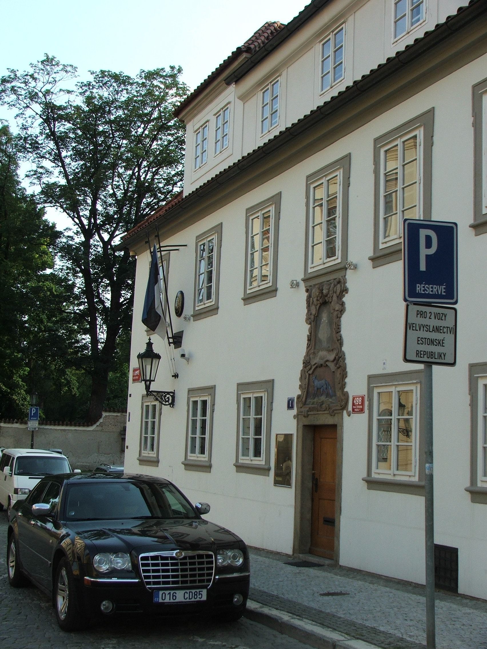 Embassy of Estonia in Prague - Malá Strana, Czechia - House At the Blue Fox